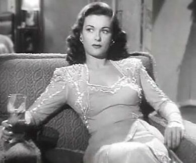 Cropped screenshot of Joan Bennett from the trailer for the film The Woman in the Window